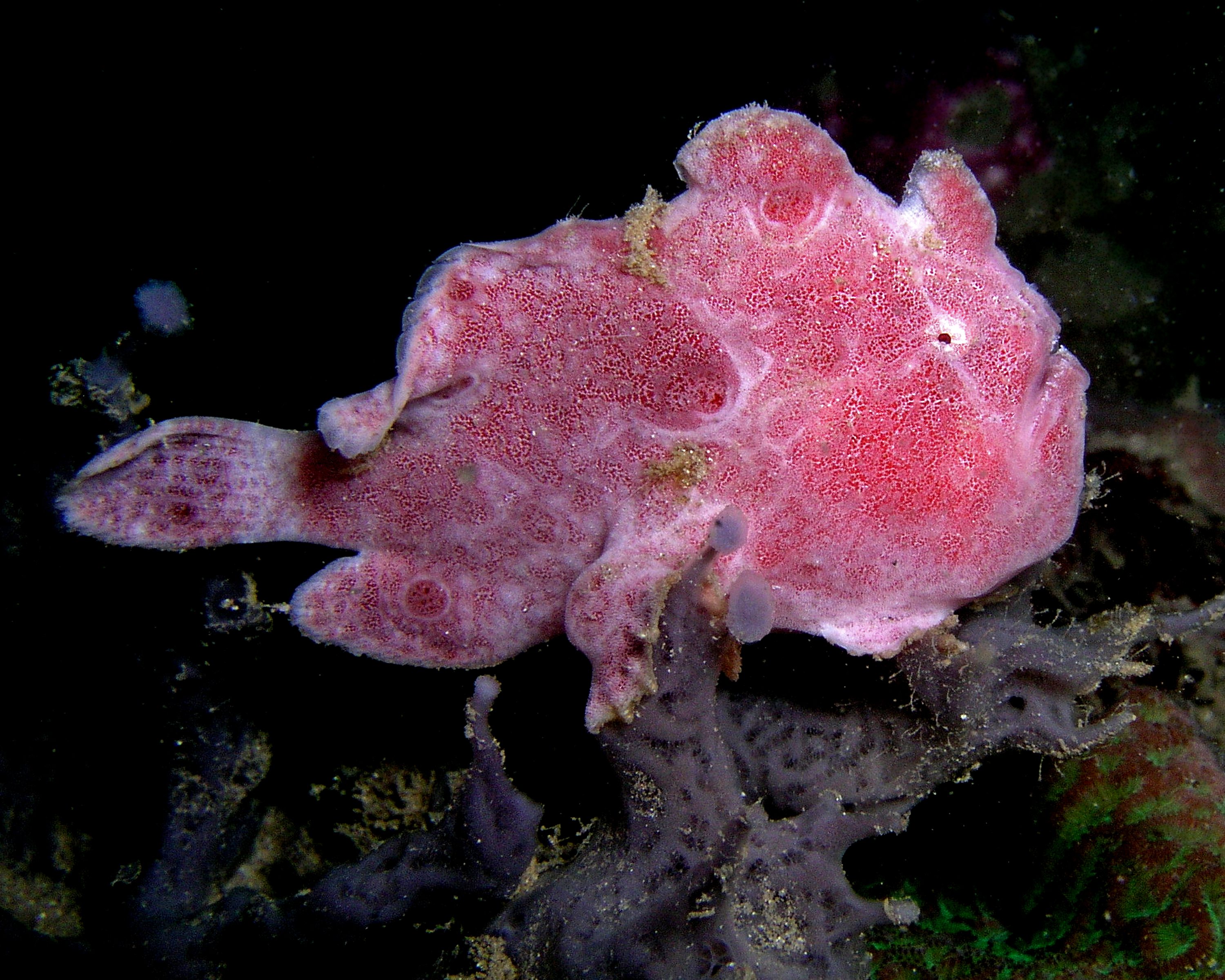 Initially identified as an Ocellated frogfish (Antennarius ocellatus) from East Timor. Subsequently reidentified by Ross Robertson as Antennarius multiocellatus